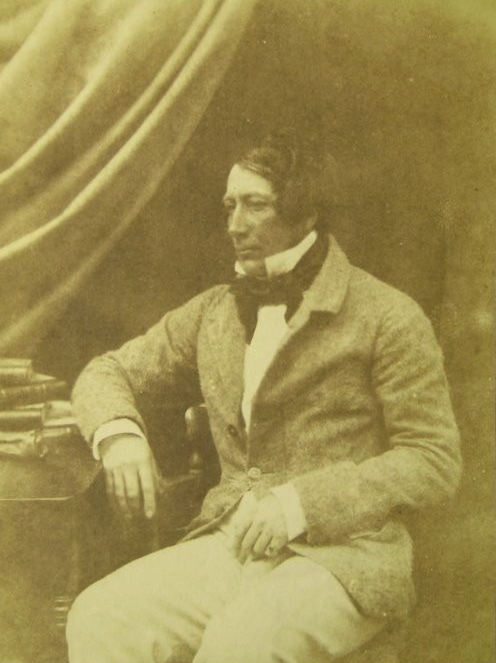 A circa 1844 salt paper (calotype) photograph of amateur golfer and aristocrat James Ogilvie Fairlie.